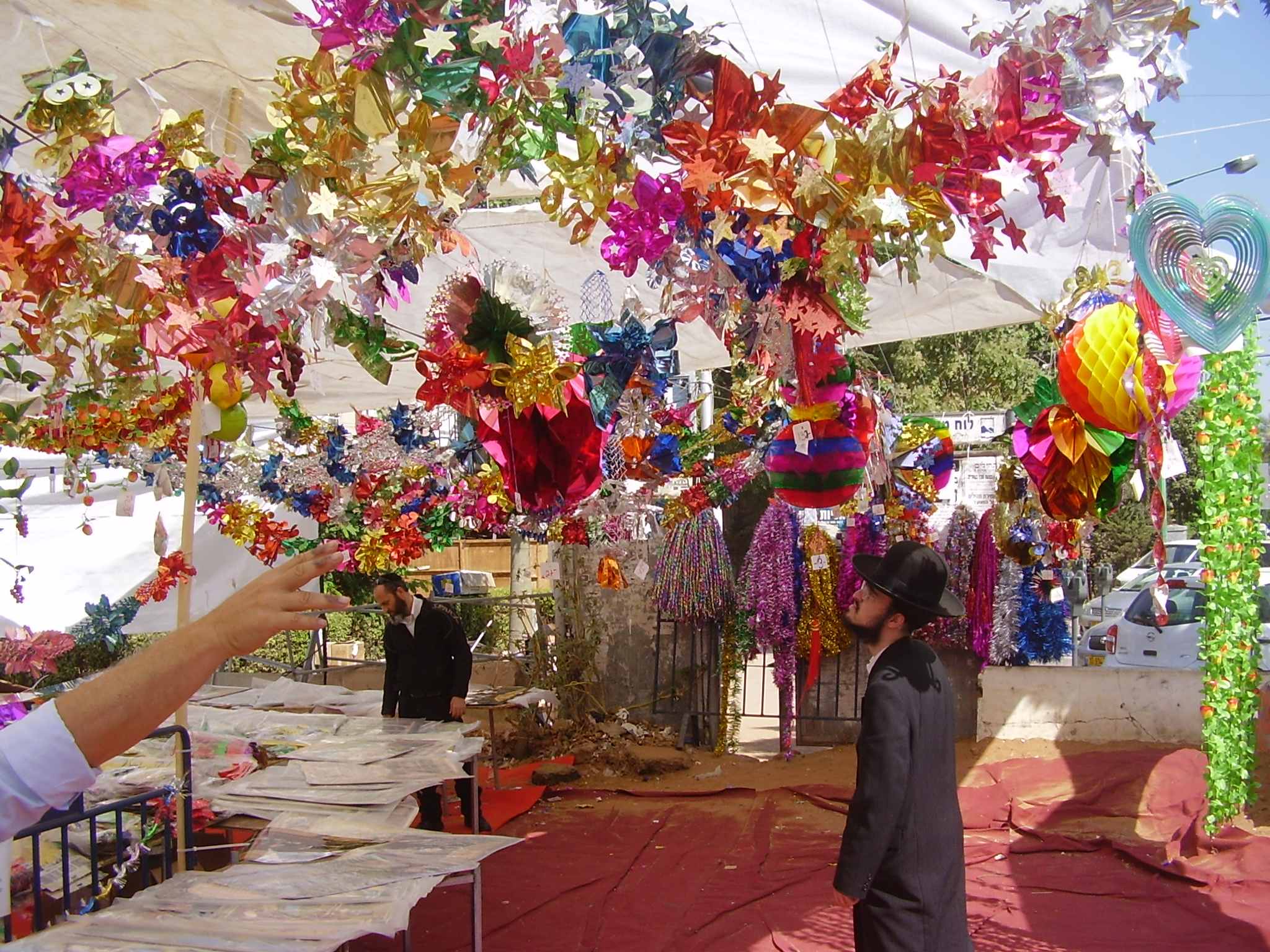 Sukkah ornaments market in Bnei Brak